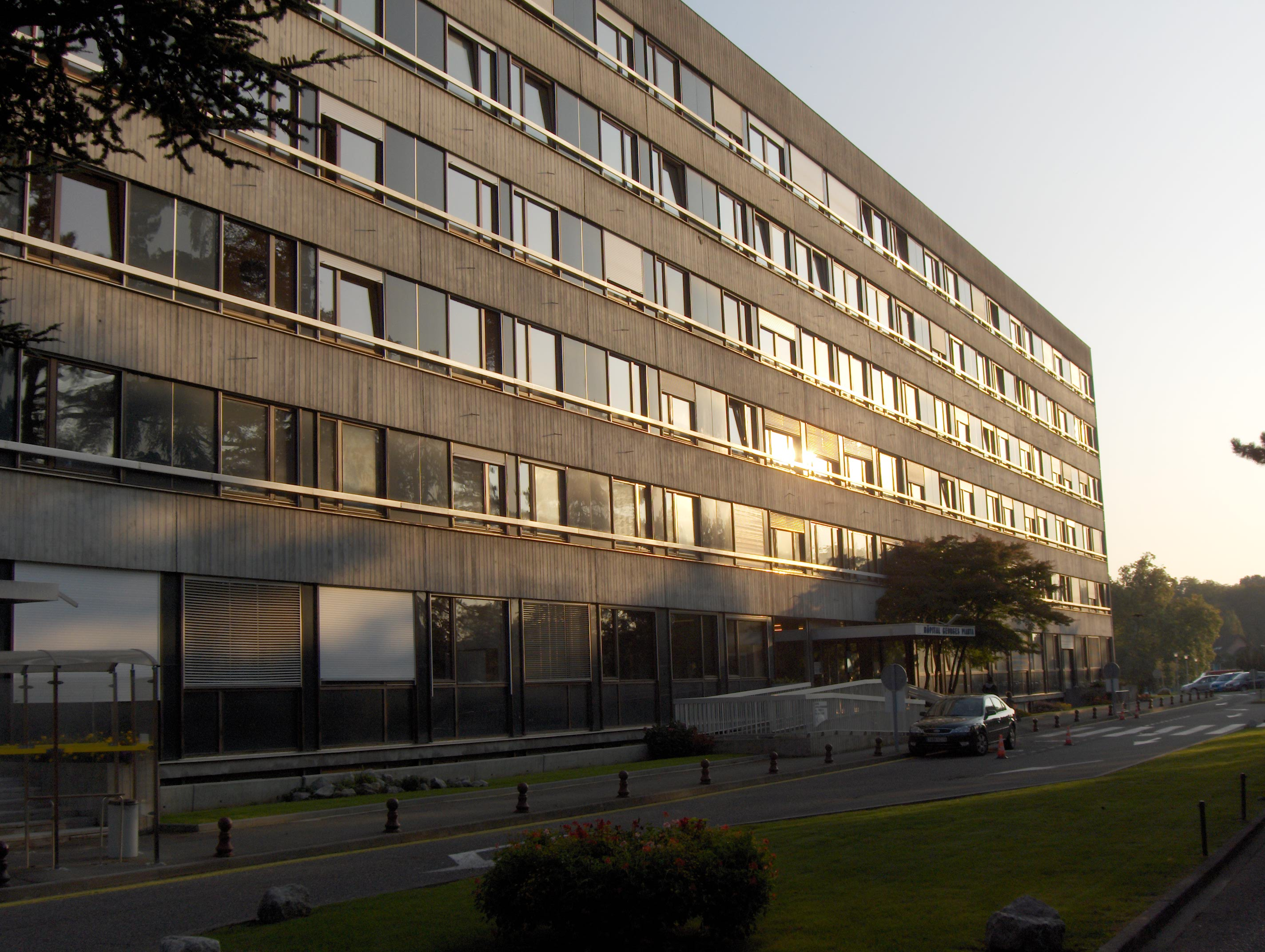 Hospital of Thonon-les-Bains.